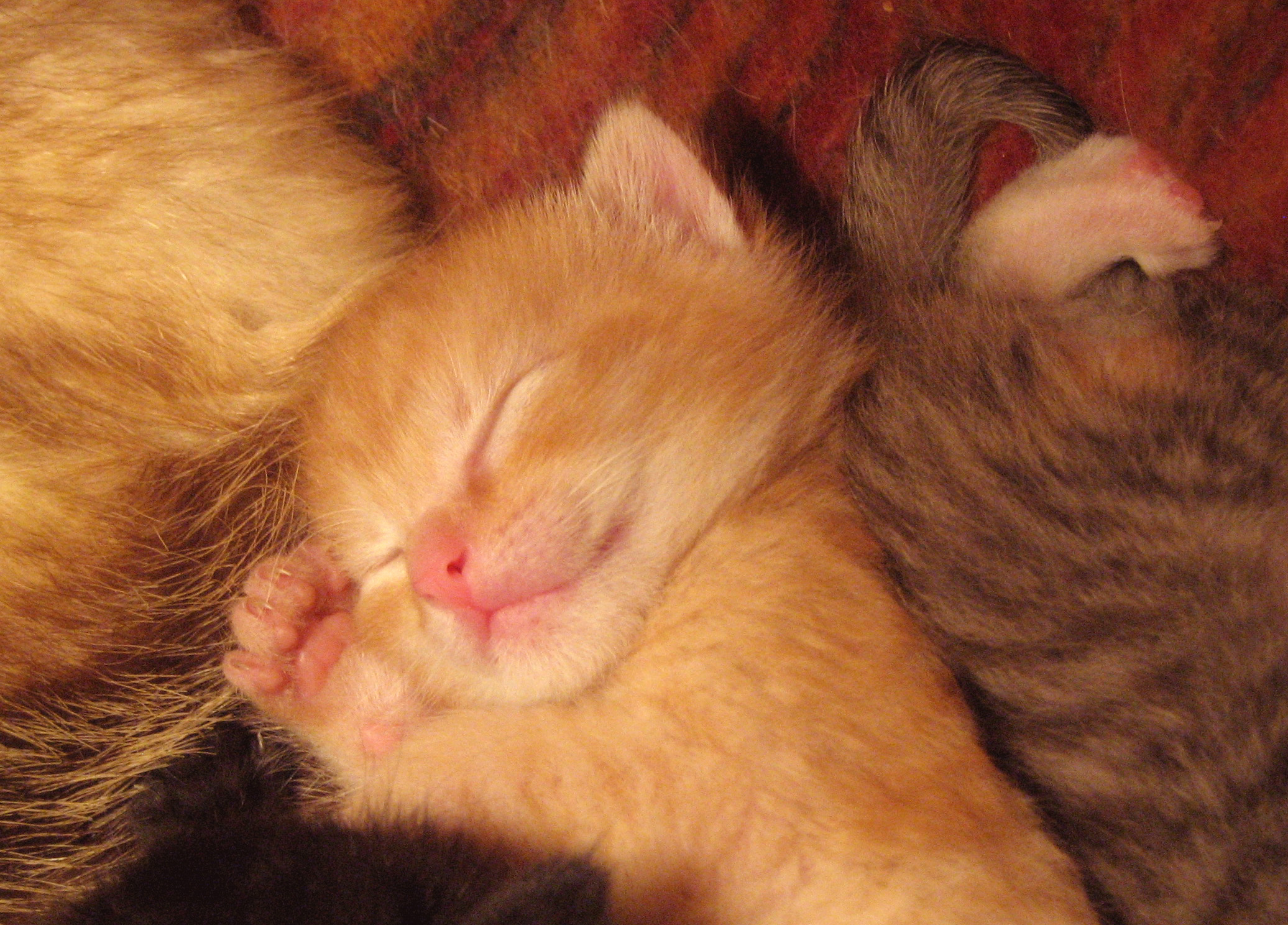 Sleeping, male baby cat. Red hair.